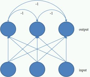 Unsupervised Learning Network